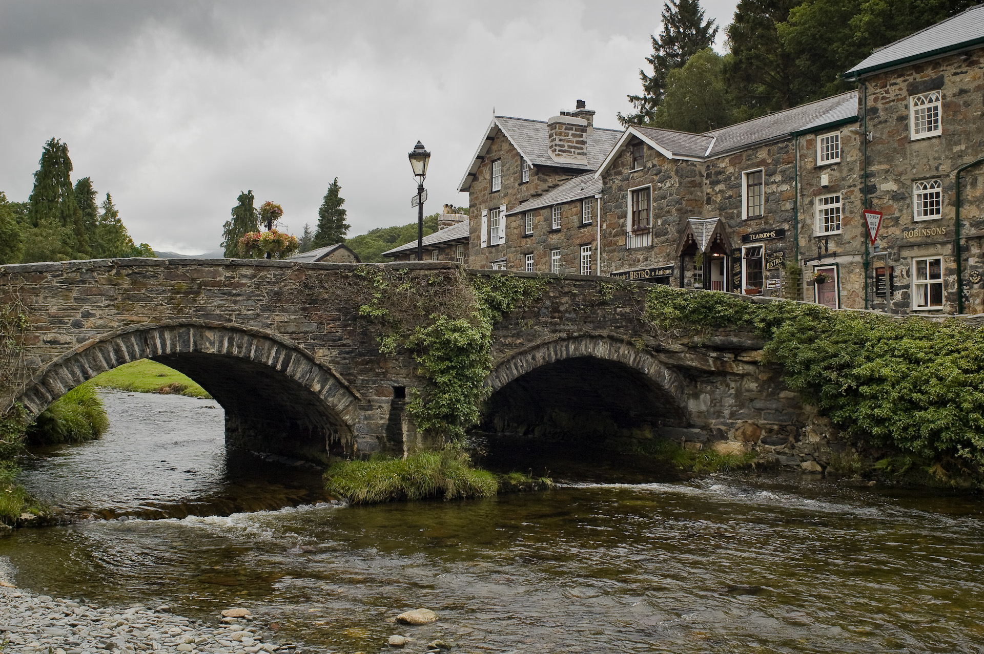 Stone arch bridge in the village of Beddgelert, Snowdonia, Wales